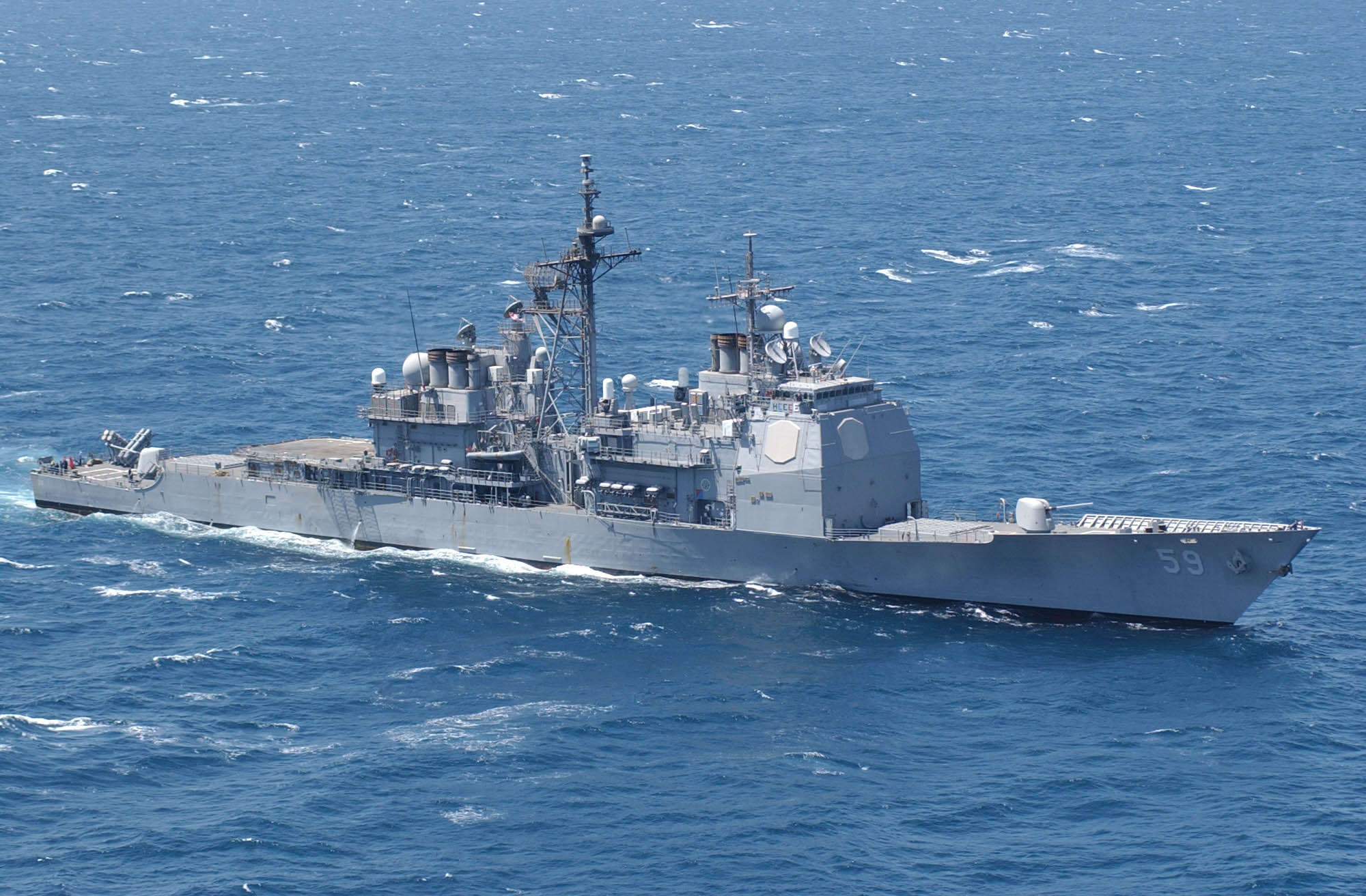 Central Command Area of Responsibility (Apr. 29, 2002) -- The guided missile cruiser USS Princeton (CG 59) underway conducting combat missions in support of Operation Iraqi Freedom. Operation Iraqi Freedom is the multi-national coalition effort to liberate the Iraqi people, eliminate Iraq's weapons of mass destruction, and end the regime of Saddam Hussein. U.S. Navy photo by Photographer's Mate 2nd Class Michael J. Pusnik, Jr. (RELEASED)